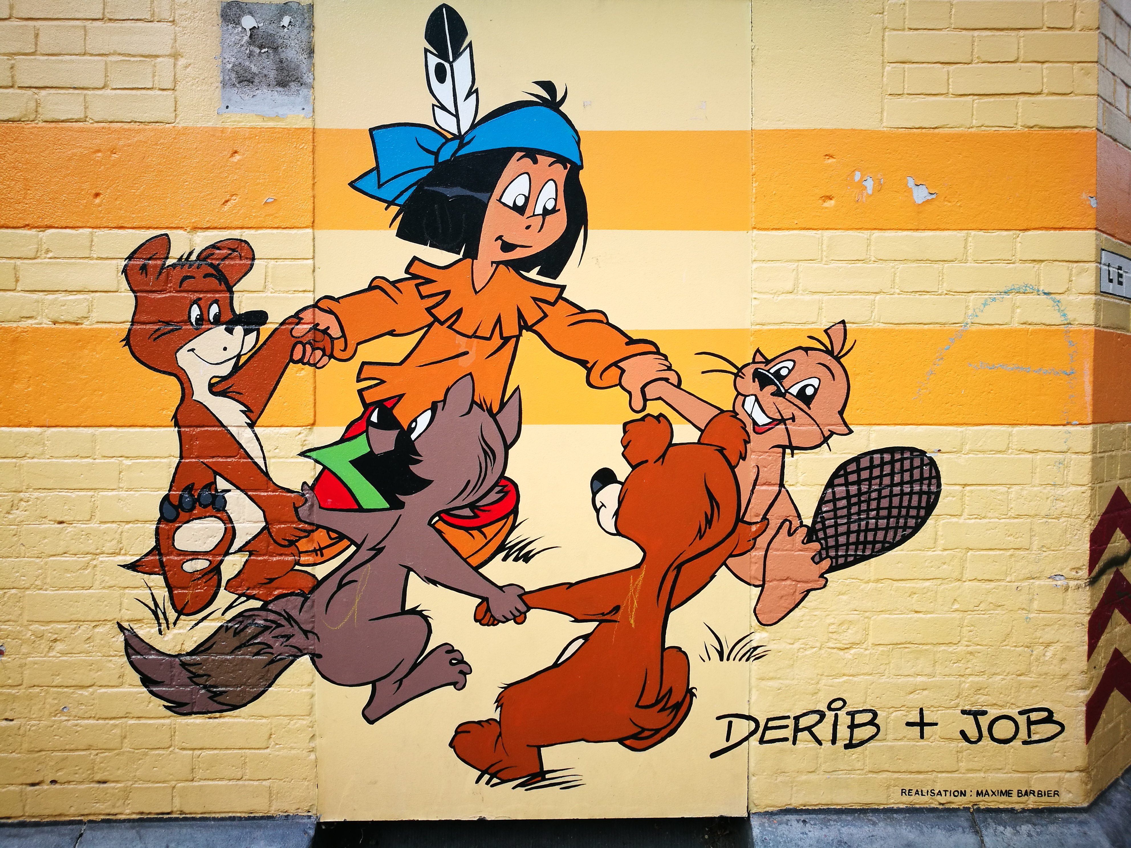 Mural painting of the comic book character Yakari dancing with his animal friends. The work is located in rue Dethy, Brussels, Belgium.